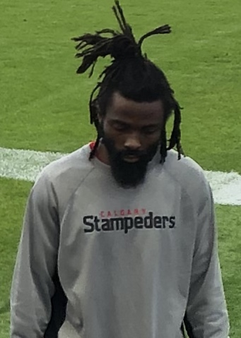 Josh Bell, 2019 defensive backs coach for the Calgary Stampeders.